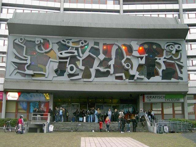 The Hofpleintheater is situated at the Benthemstraat 13 in Rotterdam.